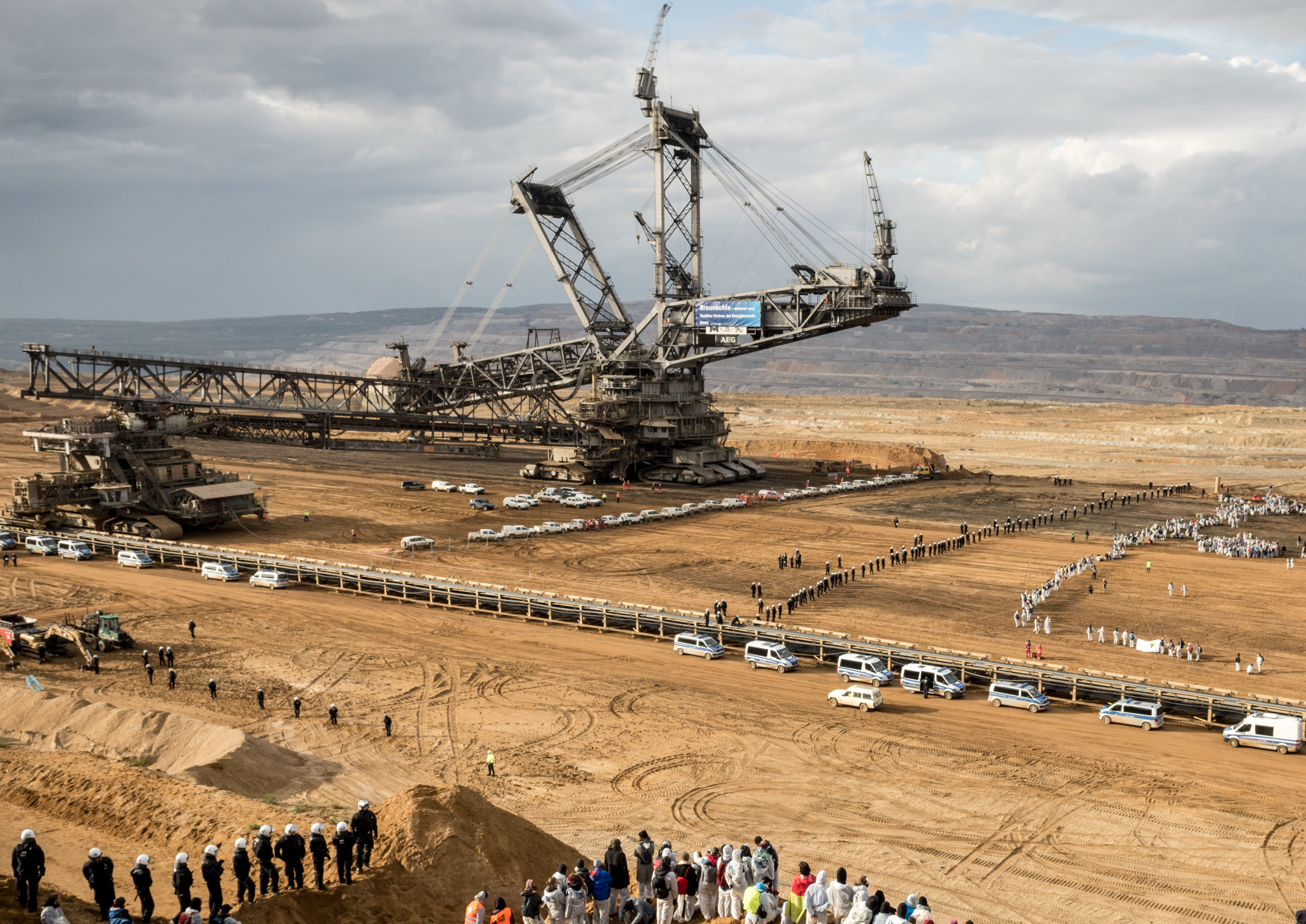 On November 5, 2017, at the beginning of COP 23, the activist organization Attac and the alliance Ende Gelände 2017 demonstrated against lignite-fired power generation in the Rhenish lignite mining district not far from Bonn. After the rally with several thousand people, about 600 people invaded the open pit Hambach. The operator had to stop two bucket-wheel excavators. copyright: Christian Bock